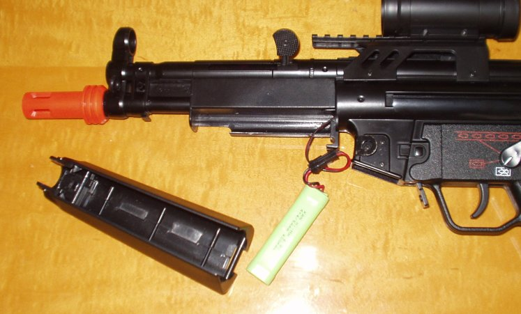 Picture of a cheap airsoft gun with battery pack exposed.